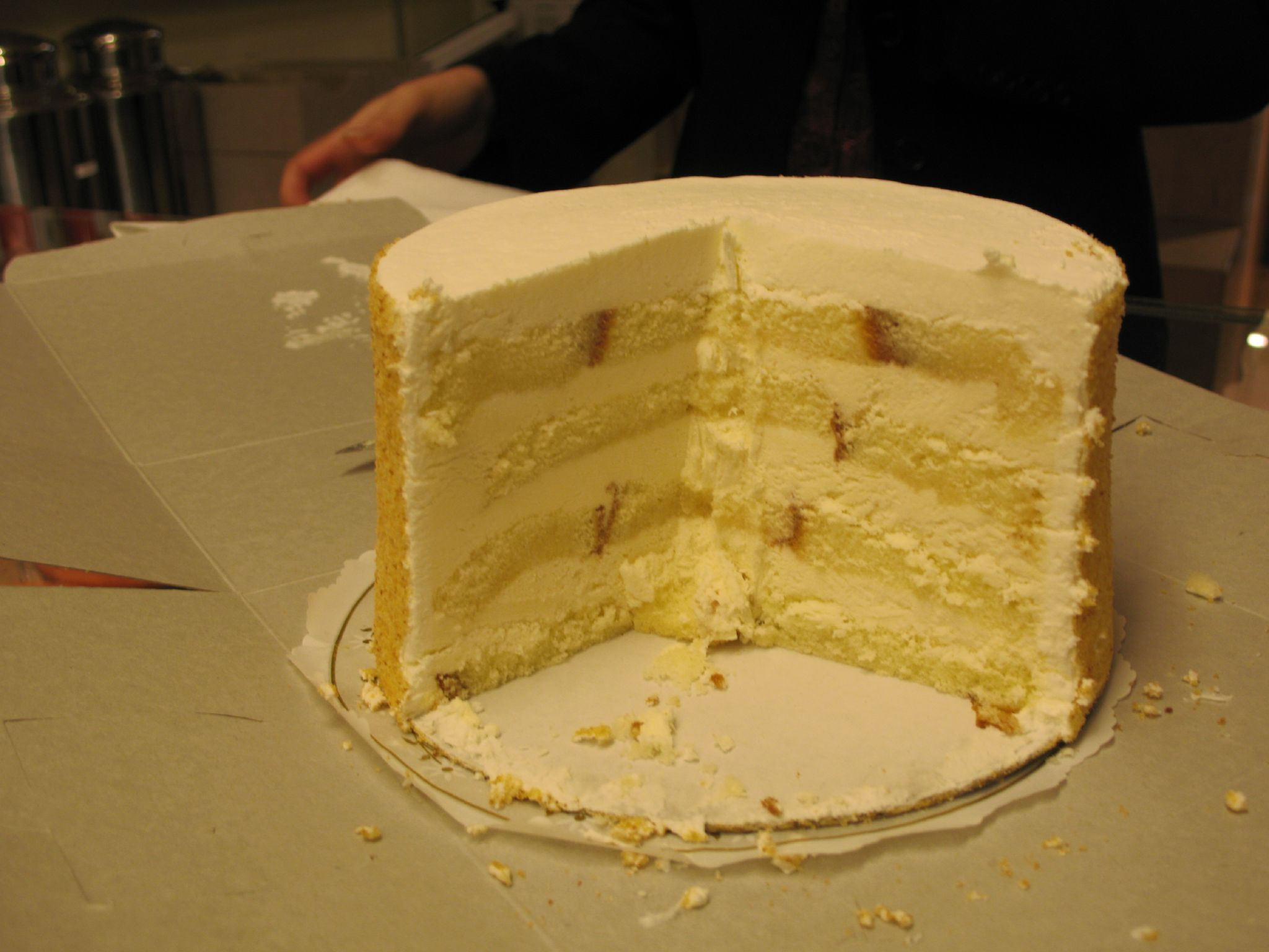 A layered Genovese cake with pan di Spagna (vanilla sponge cake), zabaione, heavy cream and rum.